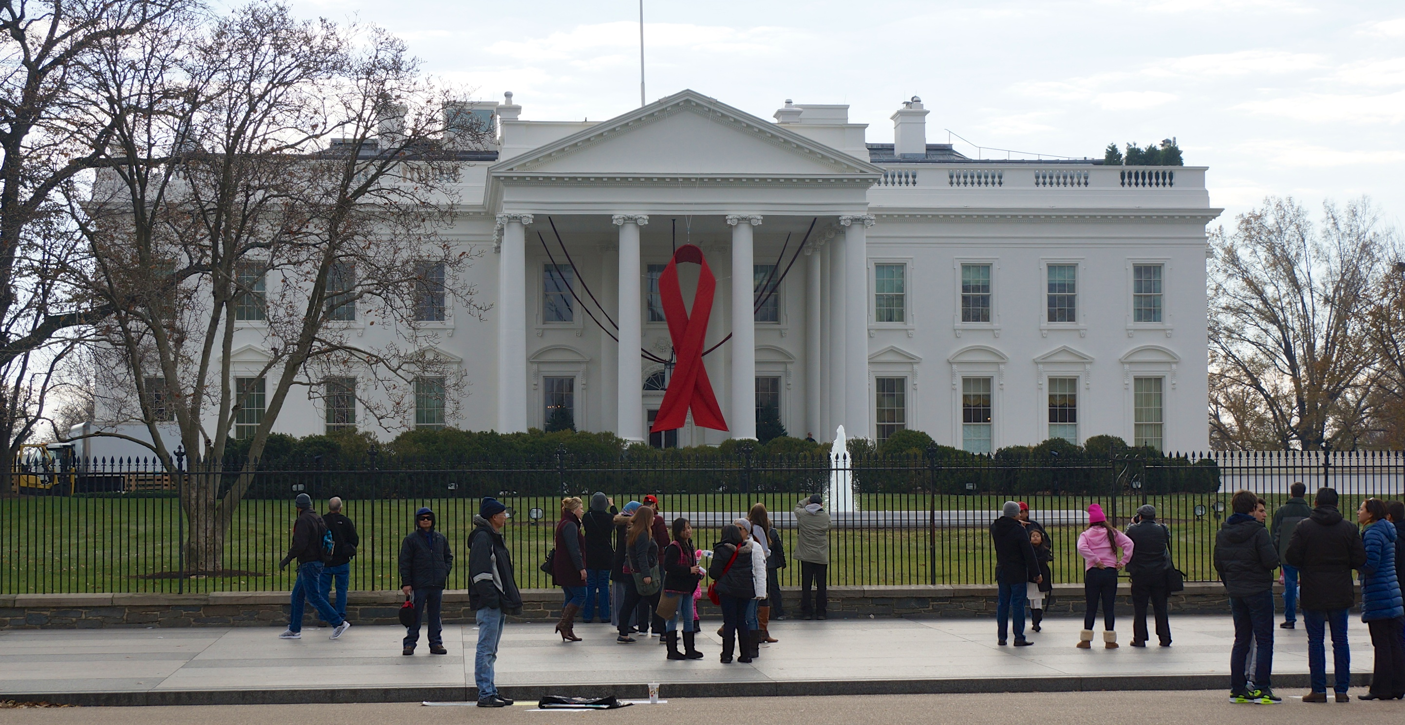 Red ribbon on the North Portico in honor of World AIDS Day 2013